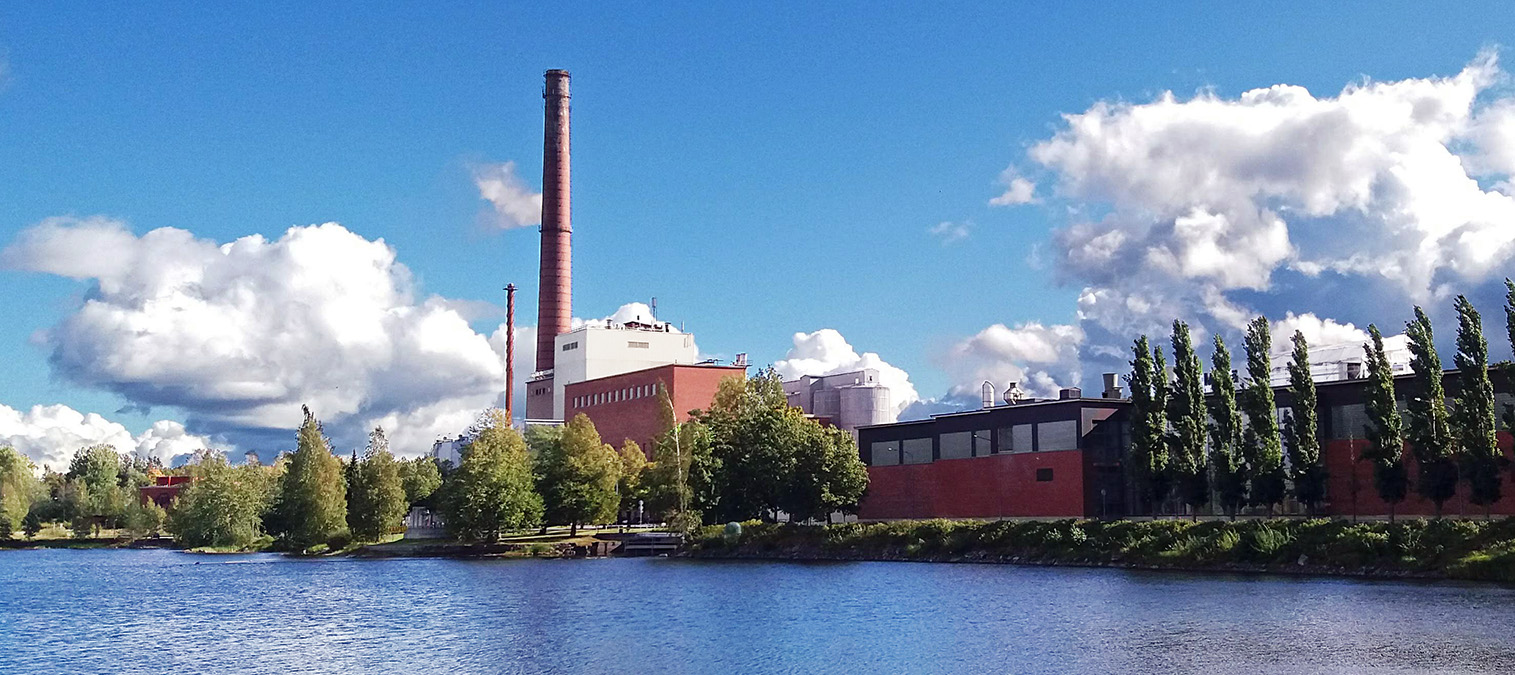 A factory in Mänttä, Finland.